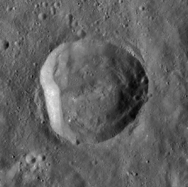 Pease crater, on the far side of the moon. Mosaic of LRO WAC images.